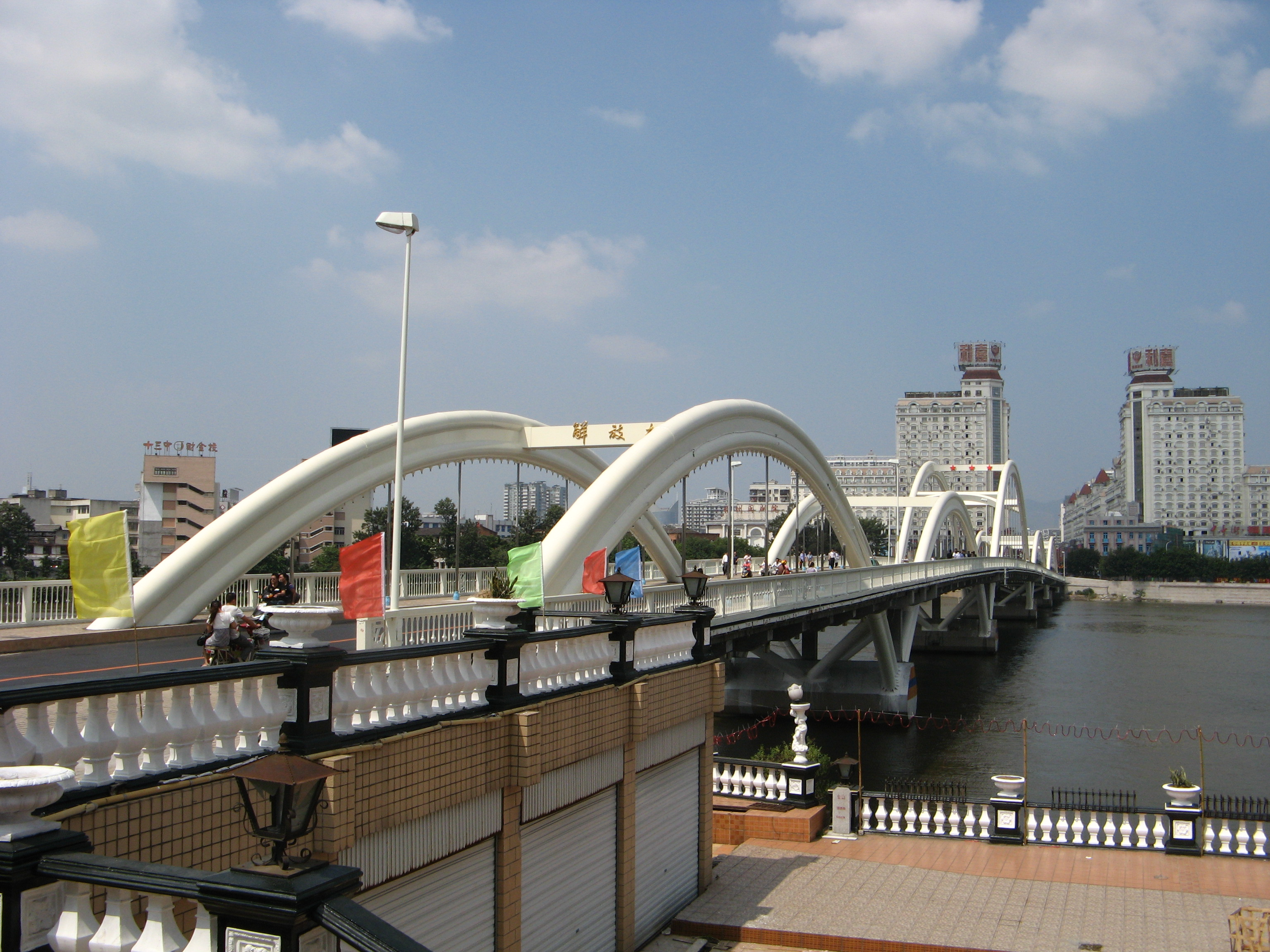 Fuzhou Liberation Bridge